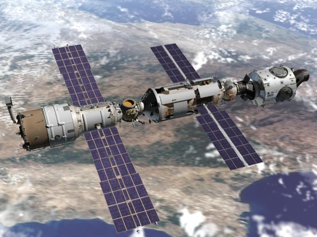 ISS Moduls Swesda, Sarja and Unity